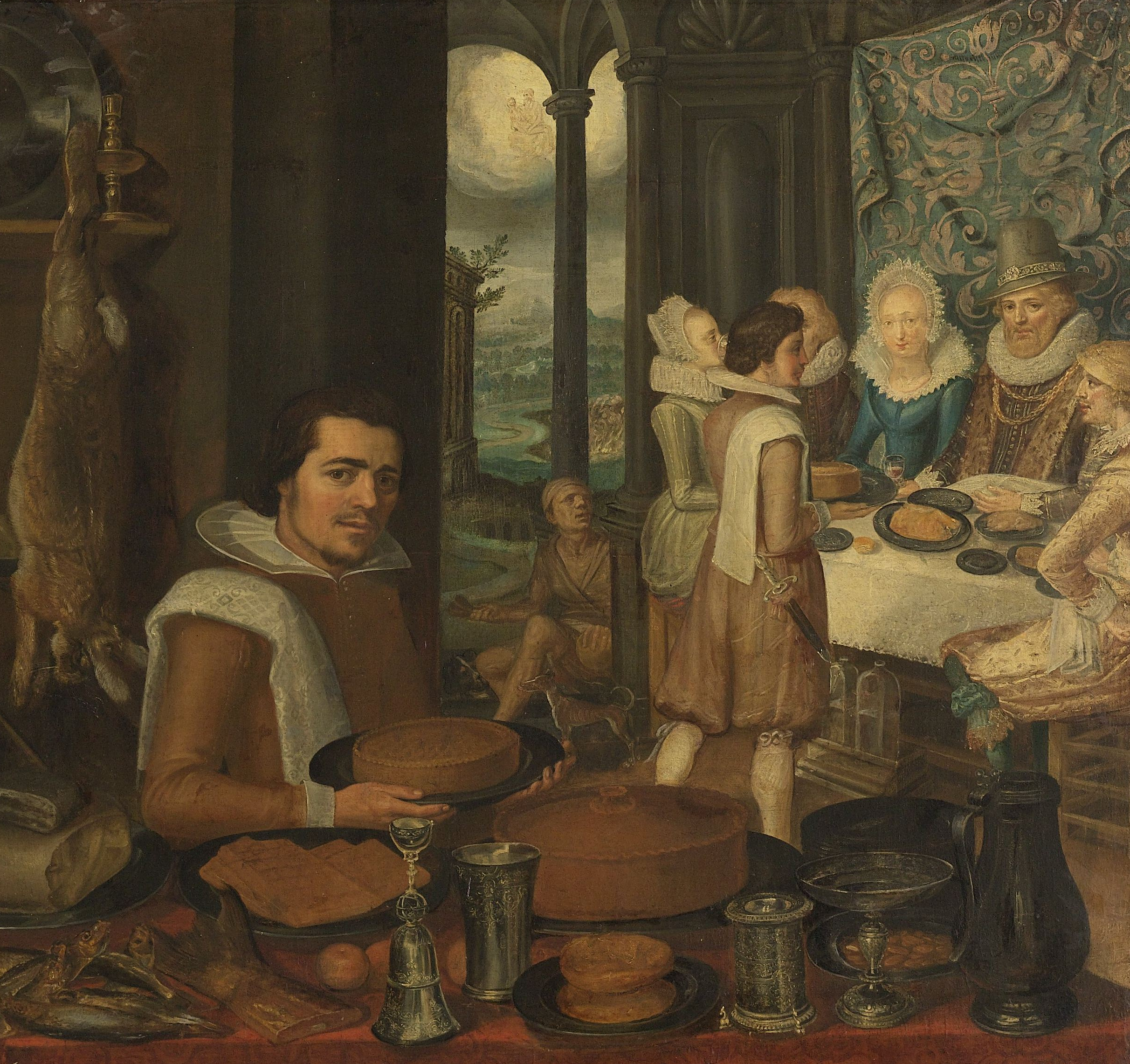 Detail of oil painting of the kitchen scene with the Parable of the Rich Man and Lazarus